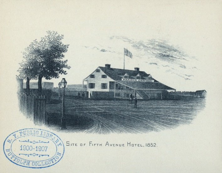 Illustration of the Madison Cottage